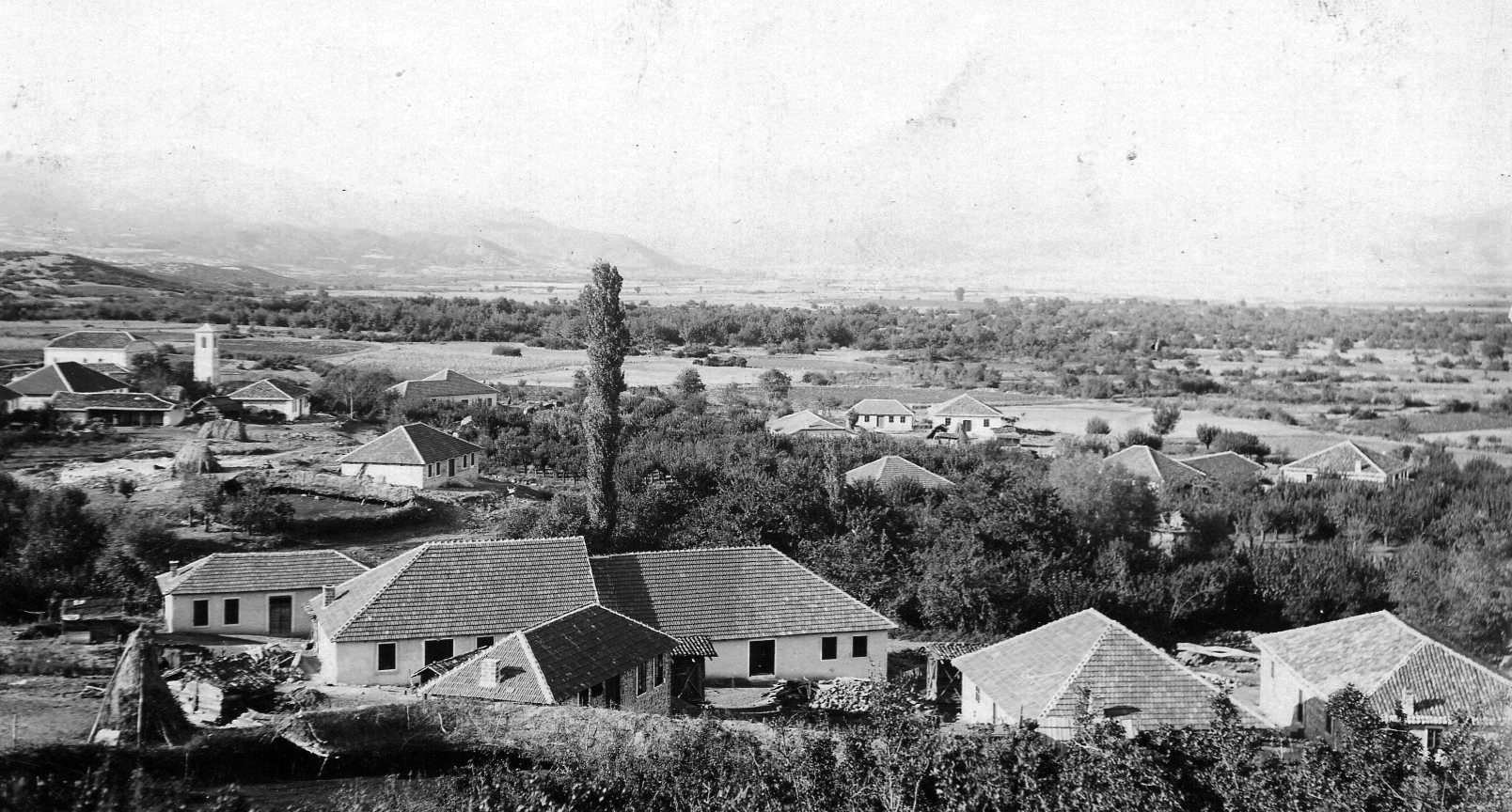 Village Miletkovo, 1931 This media file is produced by Wikipedian in Residence in Category:Wikipedian in Residence at DARM in 2016.